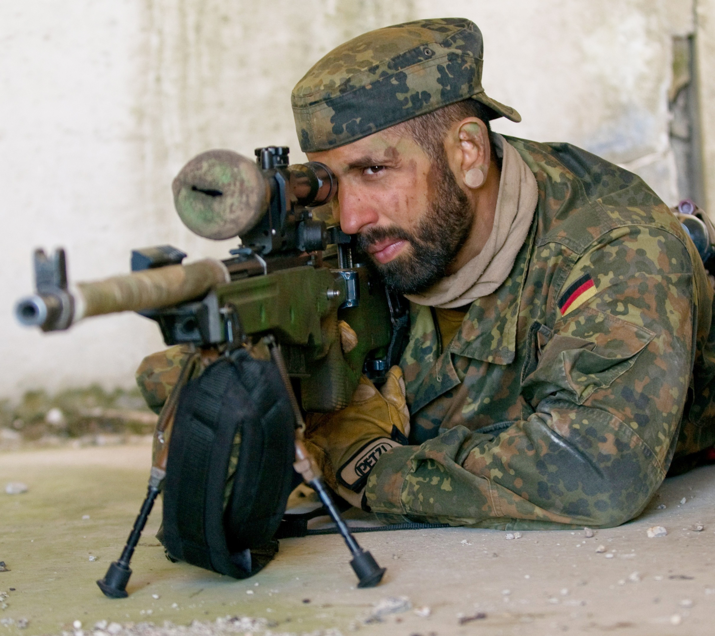 German Army Spc. Marco a sniper with Jager Battalion 292 (Jägerbataillon 292), sets sights on an enemy as part of a mock raid during exercise Saber Strike, in Rukla, Lithuania on June 11, 2015. Saber Strike is a long-standing U.S. Army Europe-led cooperative training exercise. This year’s exercise objectives facilitate cooperation amongst the U.S., Estonia, Latvia, Lithuania, and Poland to improve joint operational capability in a range of missions as well as preparing the participating nations and units to support multinational contingency operations. There are more than 6,000 participants from 13 different nations.